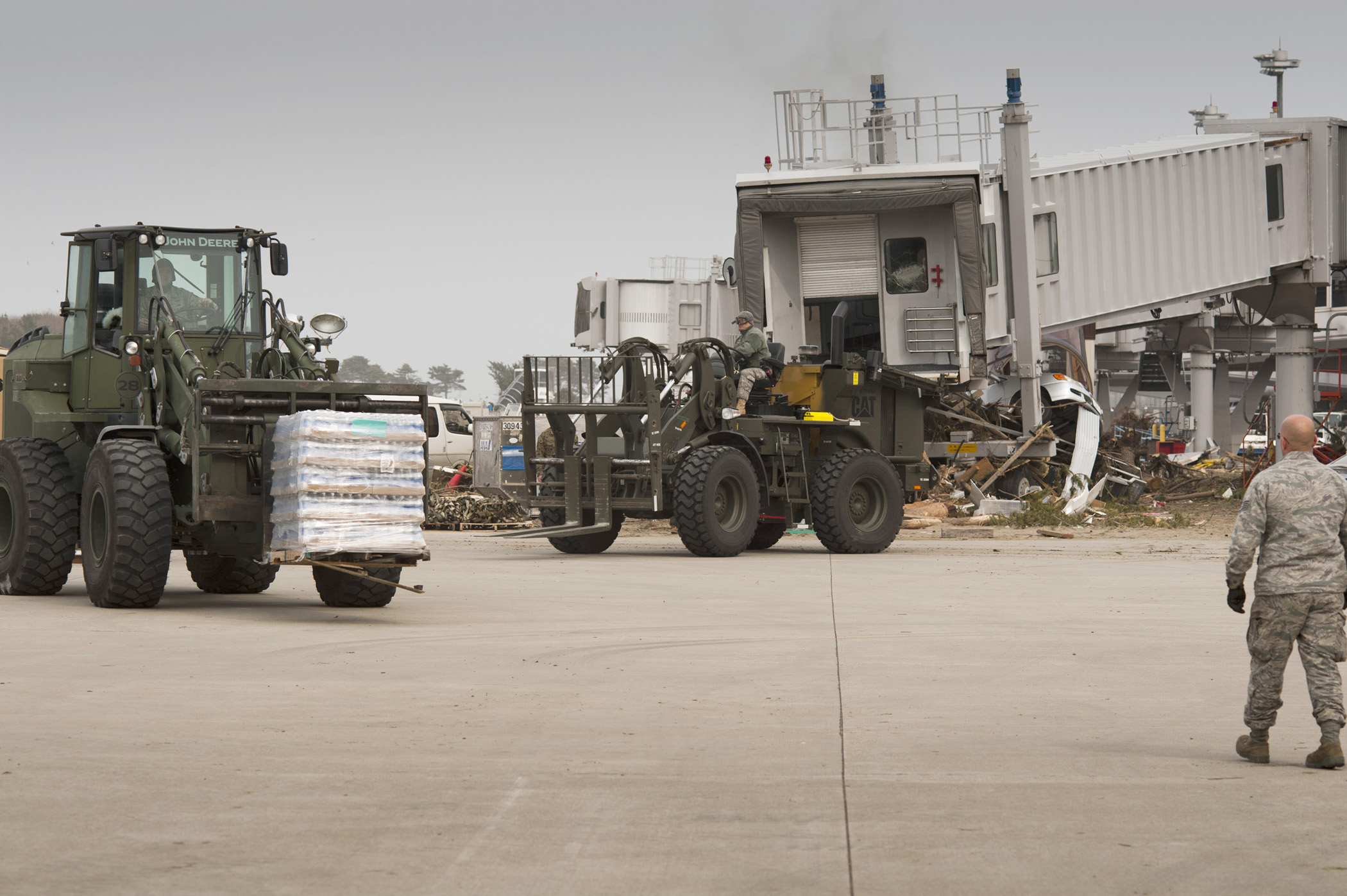 AFSOC aids Operation Tomodachi Members of the 353rd Special Operations Group drive forklifts carrying pallets of freshwater to be loaded onto Japan Ground Self-Defense Force trucks March 20, 2011, at Sendai Airport, Japan. Airmen from the 320th Special Tactics Squadron manage the airfield with the help of the 353rd SOG, Marines, JGSDF and other Japanese agencies. Sendai Airport has become a main hub for bringing humanitarian aid to those affected by the March 11 earthquake and tsunami. (U.S. Air Force photo/Staff Sgt. Samuel Morse) the original text of Inside AF.mil remains unchanged. Here is Miyagi prefecture, Japan.